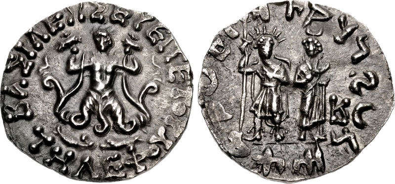 Telephos with Helios and Selene